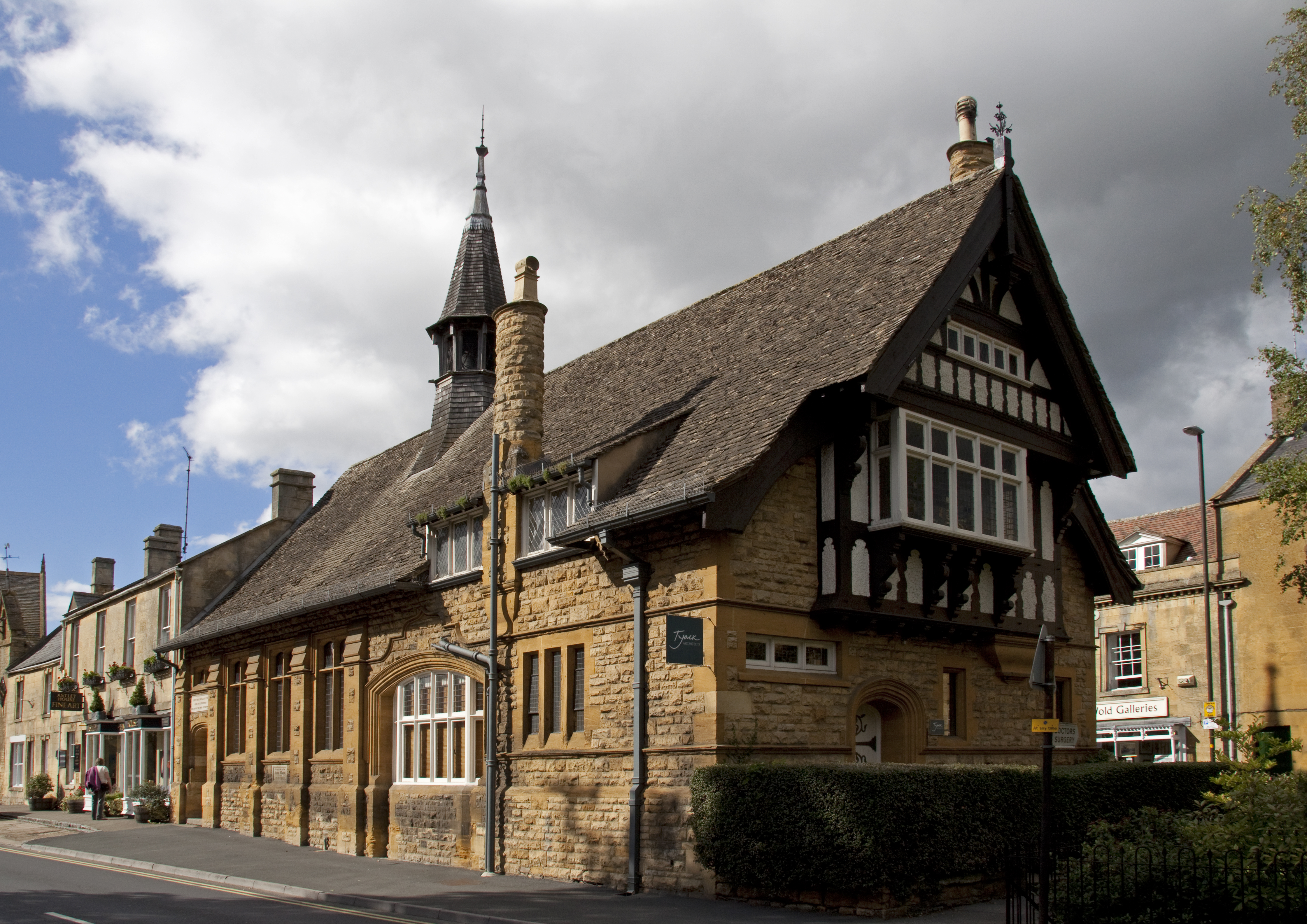 Mann Memorial Hall Moreton in marsh 1